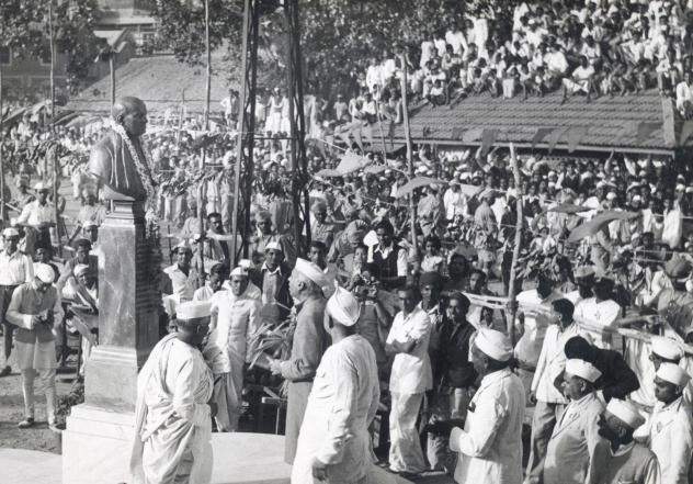 Jawaharlal Nehru during his visit to Gujarat Vidyapeeth, 12-13 February 1949